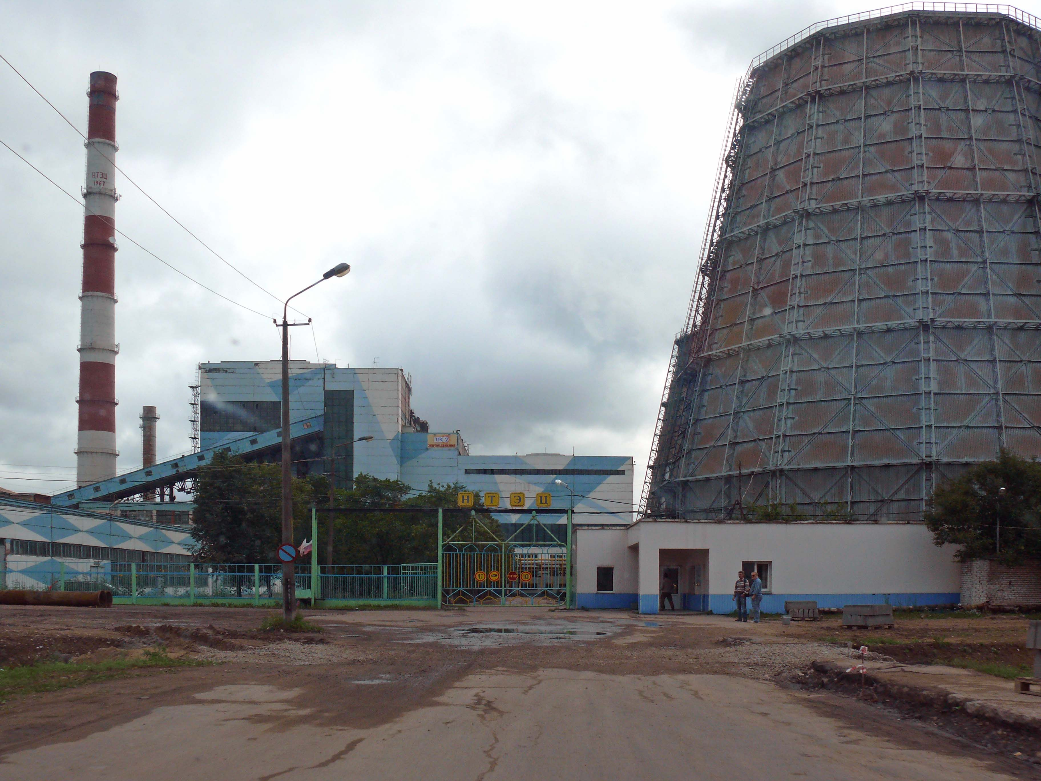 Centrel pass-through of Novgorodskaya TEC company. Novgorod, Russia. This is the city's cogeneration plant, located at the Acron plant.